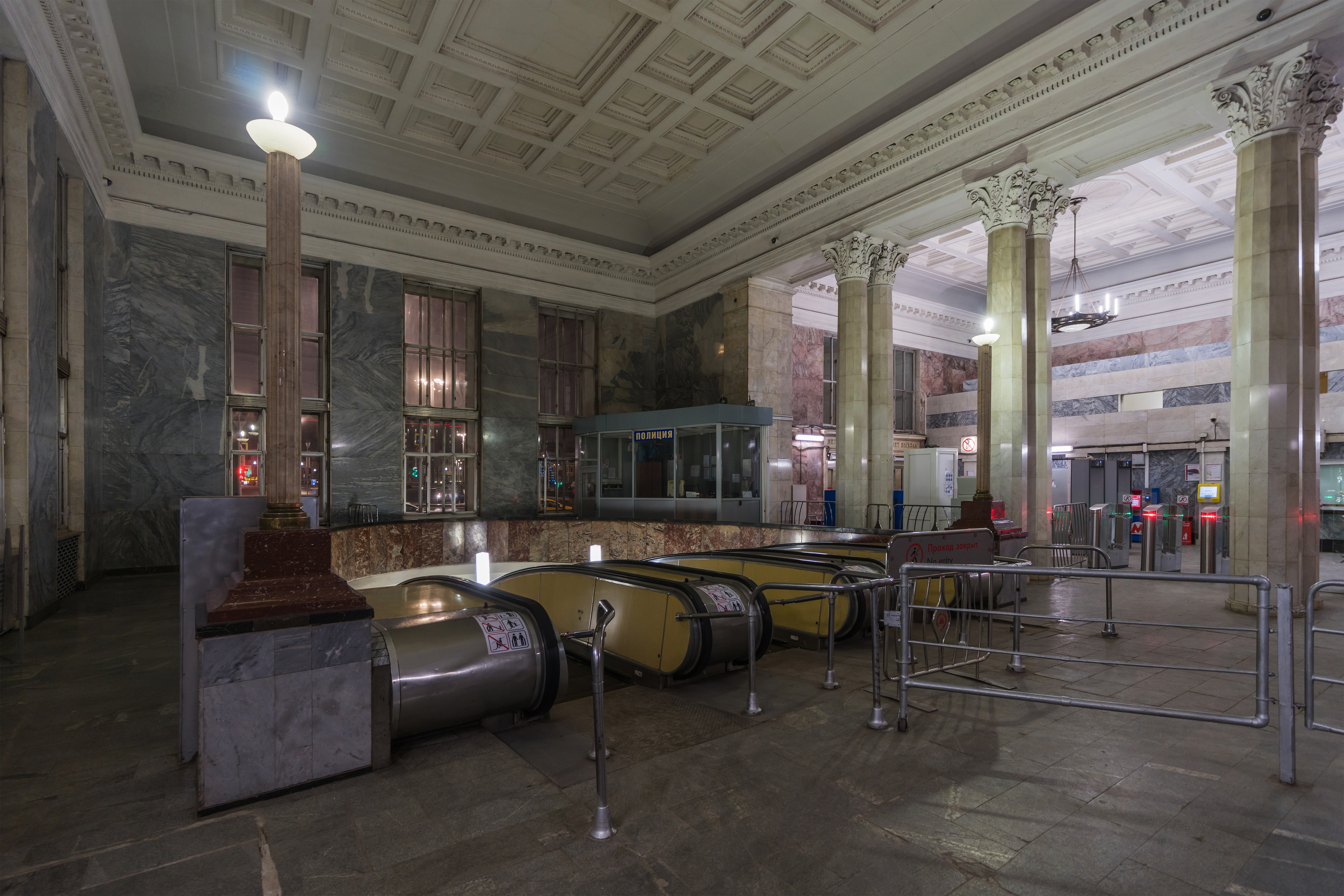 Belorusskaya (Green Line) metro station in Moscow, interior of entrance building